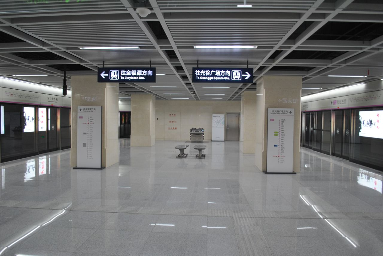 Hankou Railway Station (Subway)